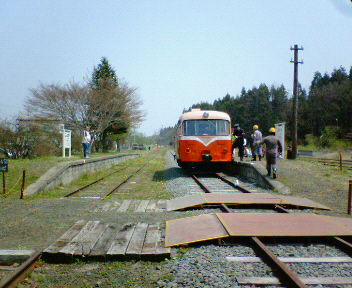 Nanbu Jukan Railway Shichinohe Station platforms